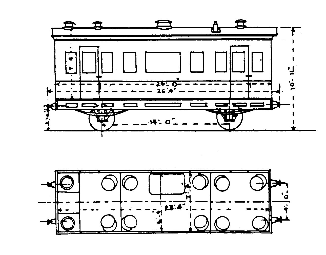 Type drawing of JGR's Imperial Car (Goryosha) No.1 (1st)